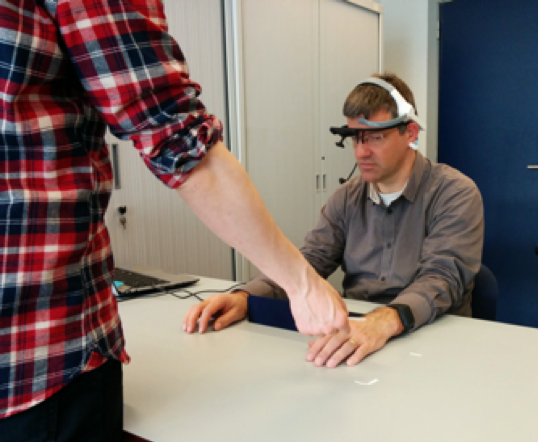 Reader attached to sensors during academic experiment about digital reader engagement at the KU Leuven in 2015.